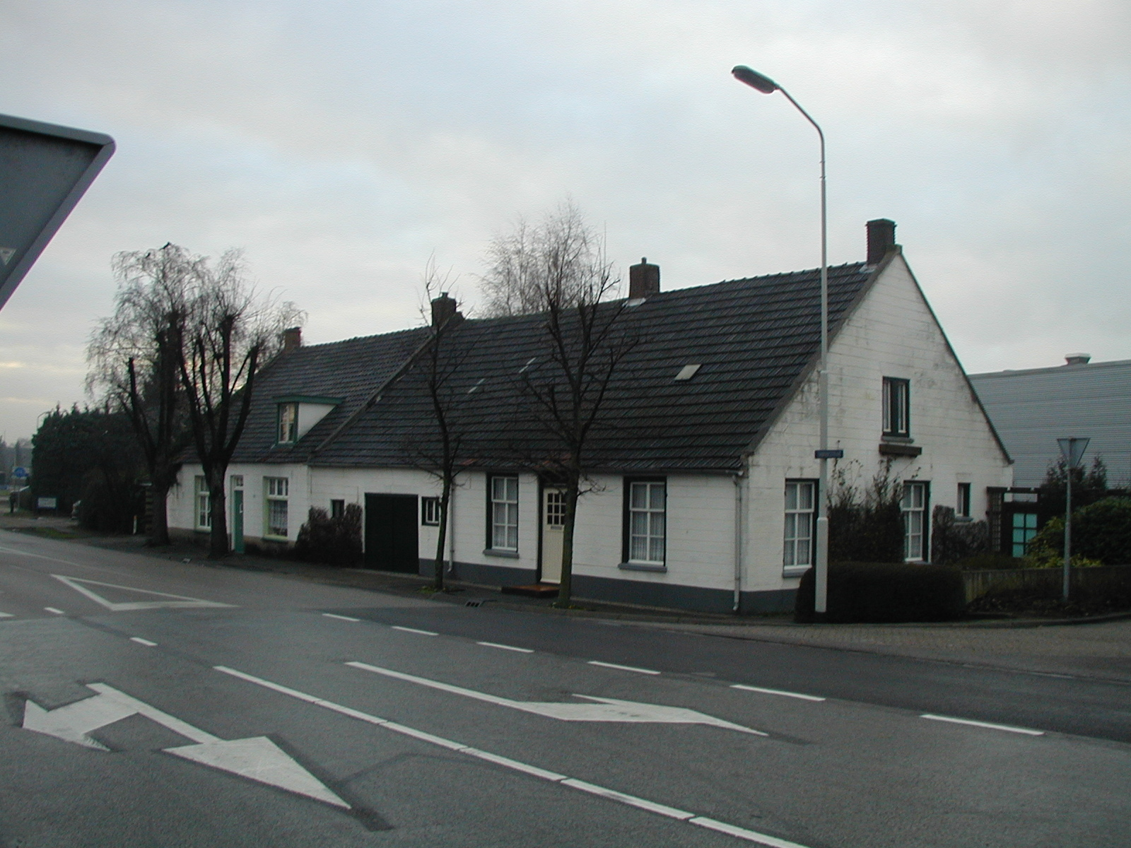 House Fabriekstraat 41, Deurne (NL)